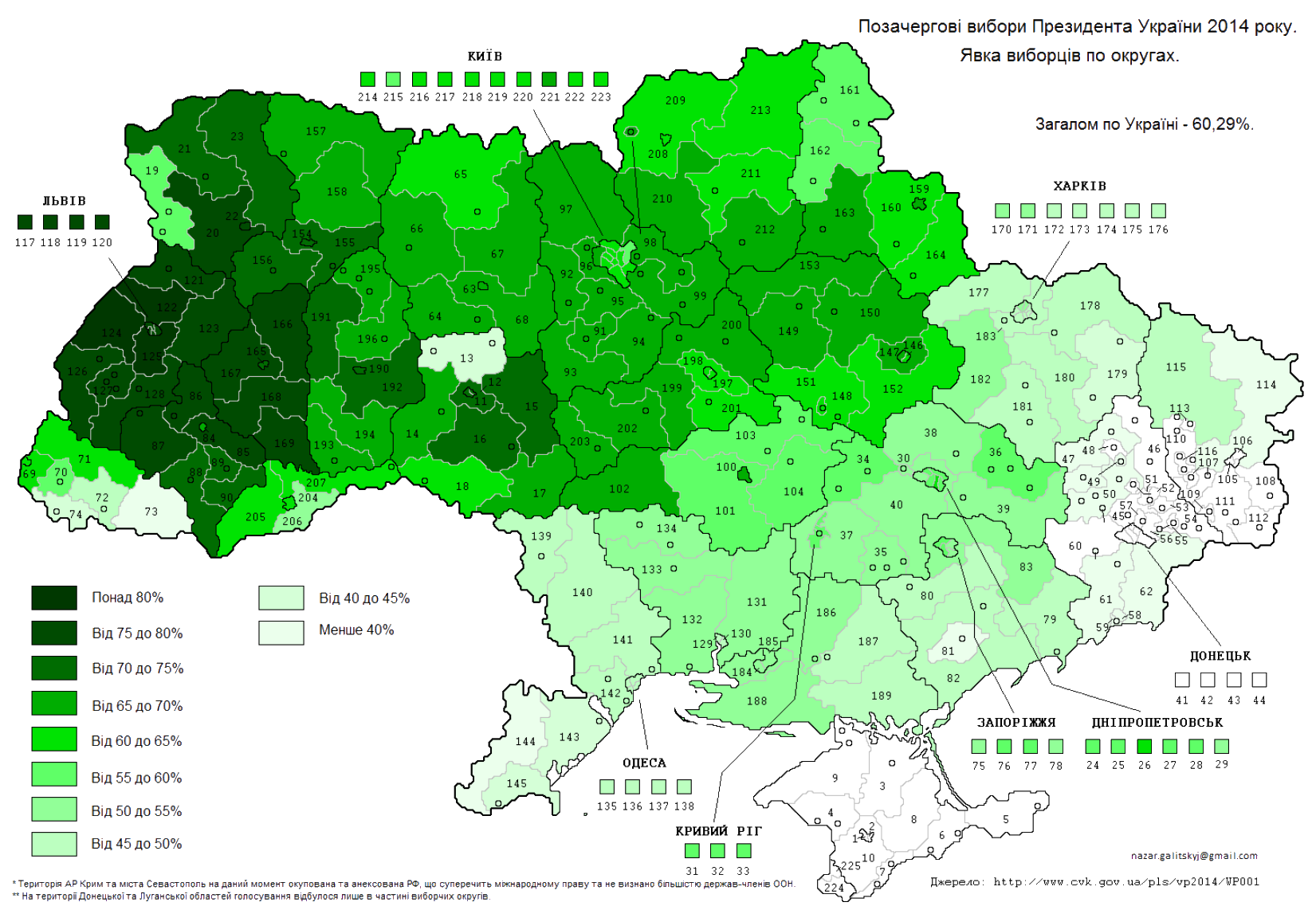 Turnout for 2014 Ukrainian presidential election.